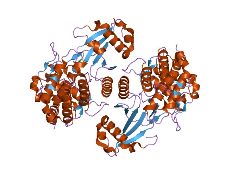 Cartoon representation of the molecular structure of protein registered with 1nw1 code.